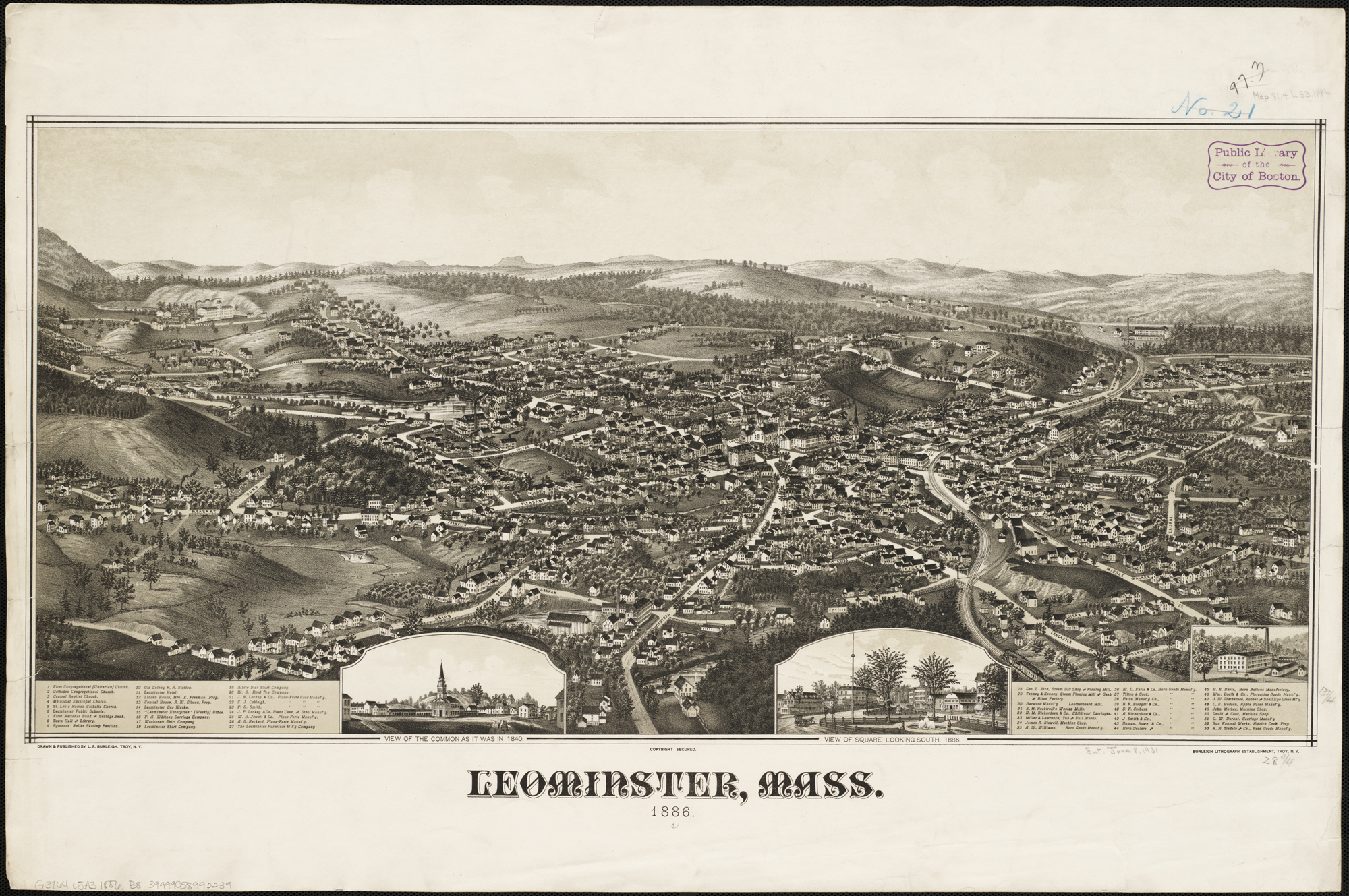 Zoom into this map at . Author: Burleigh, L. R. Publisher: L.R. Burleigh Date: [1886] Location: Leominster (Mass.) Scale: Not drawn to scale. Call Number: G3764.L5A3 1886.B8